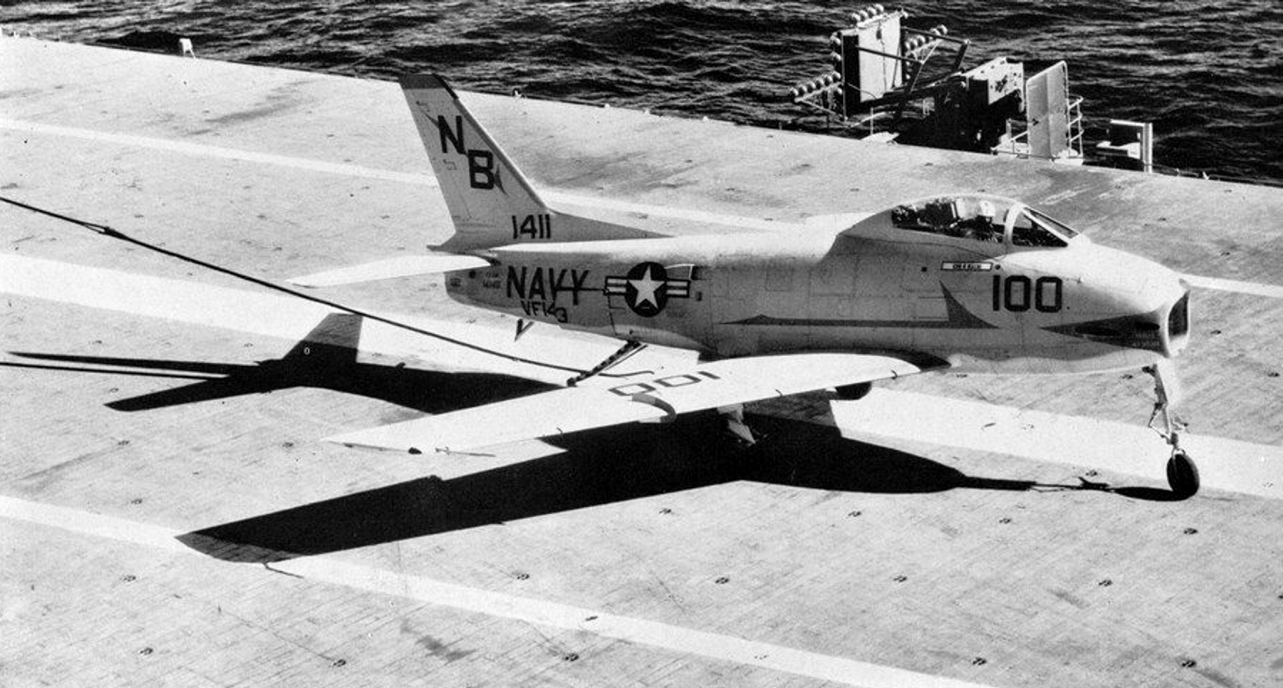 A U.S. Navy North American FJ-3M Fury (BuNo 141411) from Fighter Squadron VF-143 "Kingpins" landing aboard the U.S. Navy aircraft carrier USS Hancock (CVA-19). VF-143 was assigned to Air Task Group 2 (ATG-2) aboard Hancock for a deployment to the Western Pacific from 6 April to 18 September 1957.